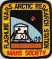 Patch used for the 2000 expedition season of the Flashline Mars Arctic Research Station (FMARS) Program.